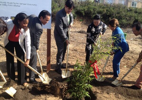 Congresswoman Pelosi breaks ground with Namesake Florence Fang, President of the Board of Supervisors David Chiu, and Supervisor Malia Cohen at the Florence Fang Asian Community Garden – San Francisco’s first ever Asian Community Garden – in the Bayview.